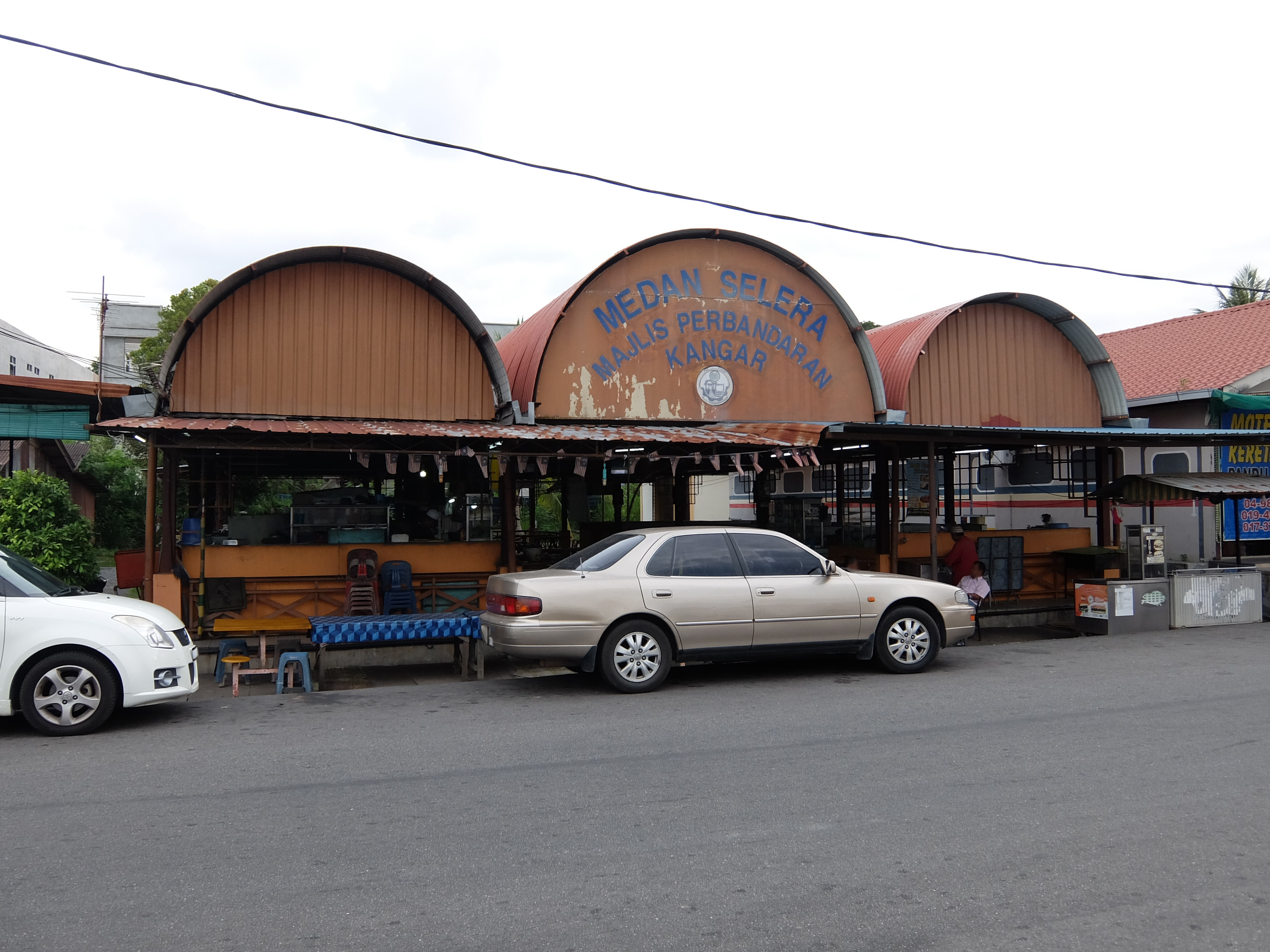 Kangar Municipal Council Food Court, Arau, Perlis, Malaysia